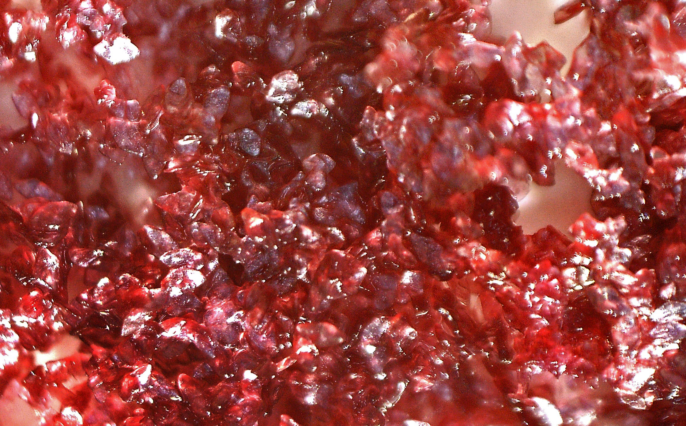 Potassium bitartrate, also known as potassium hydrogen tartrate, with formula KC4H5O6, byproduct of winemaking or here found in red grape juice